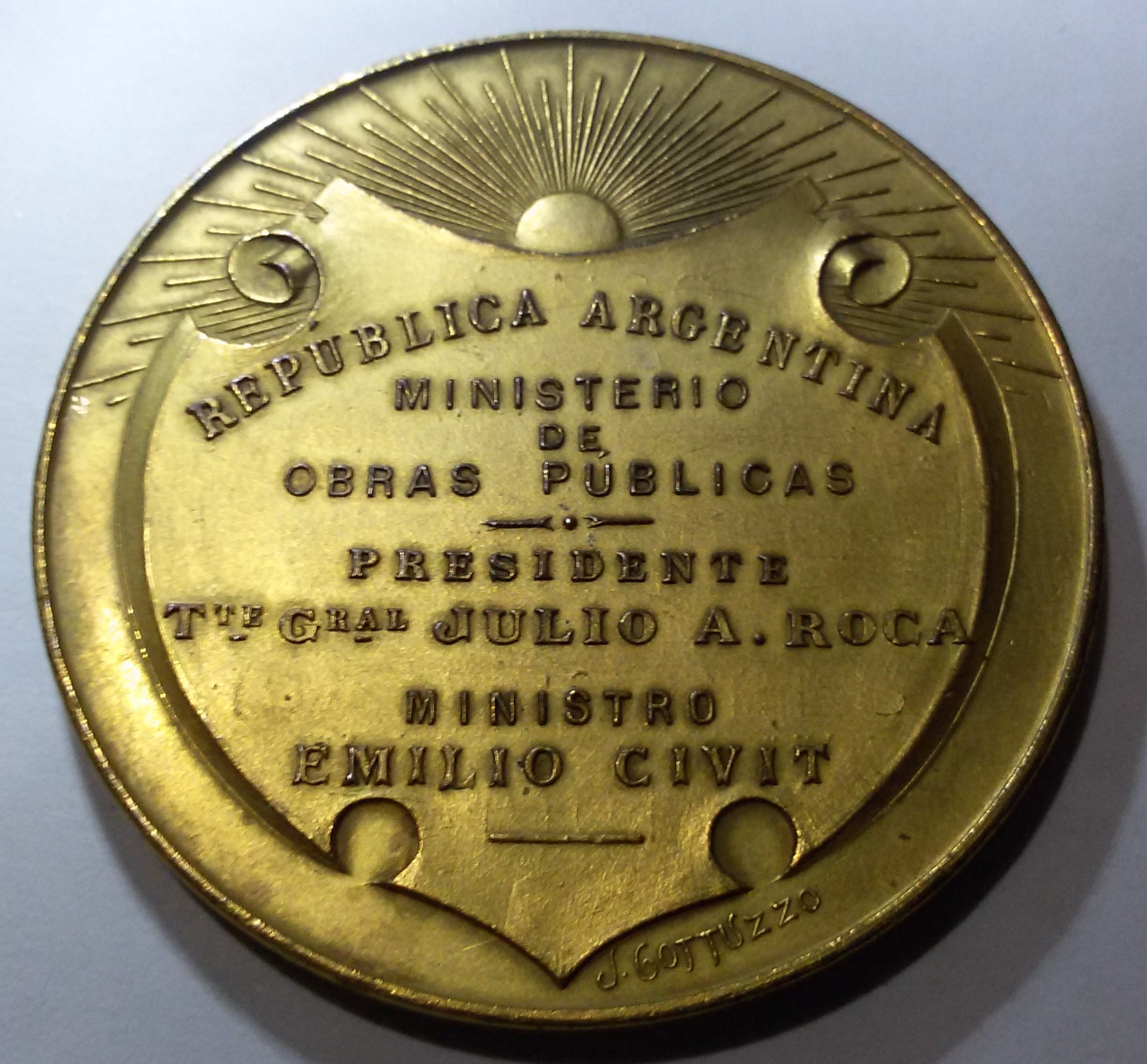 Cable Carril Al Famatina (Argentina) - Commemorative Medal (February 1903 - July 1904)